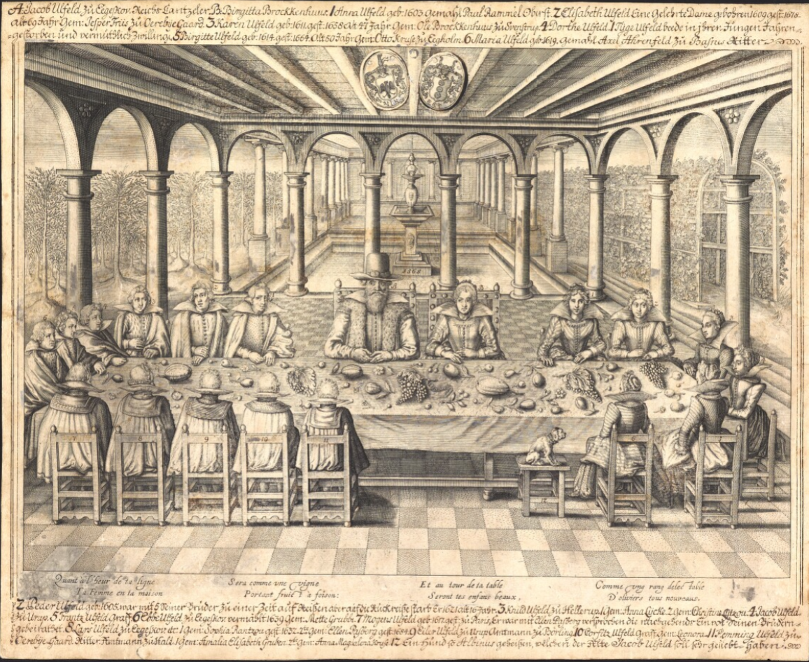 Ulfeldt, Jacob (1567-1630) rigskansler, Danmark Ulfeldt, Birgitte Brockenhuus (1580-1656) Danmark